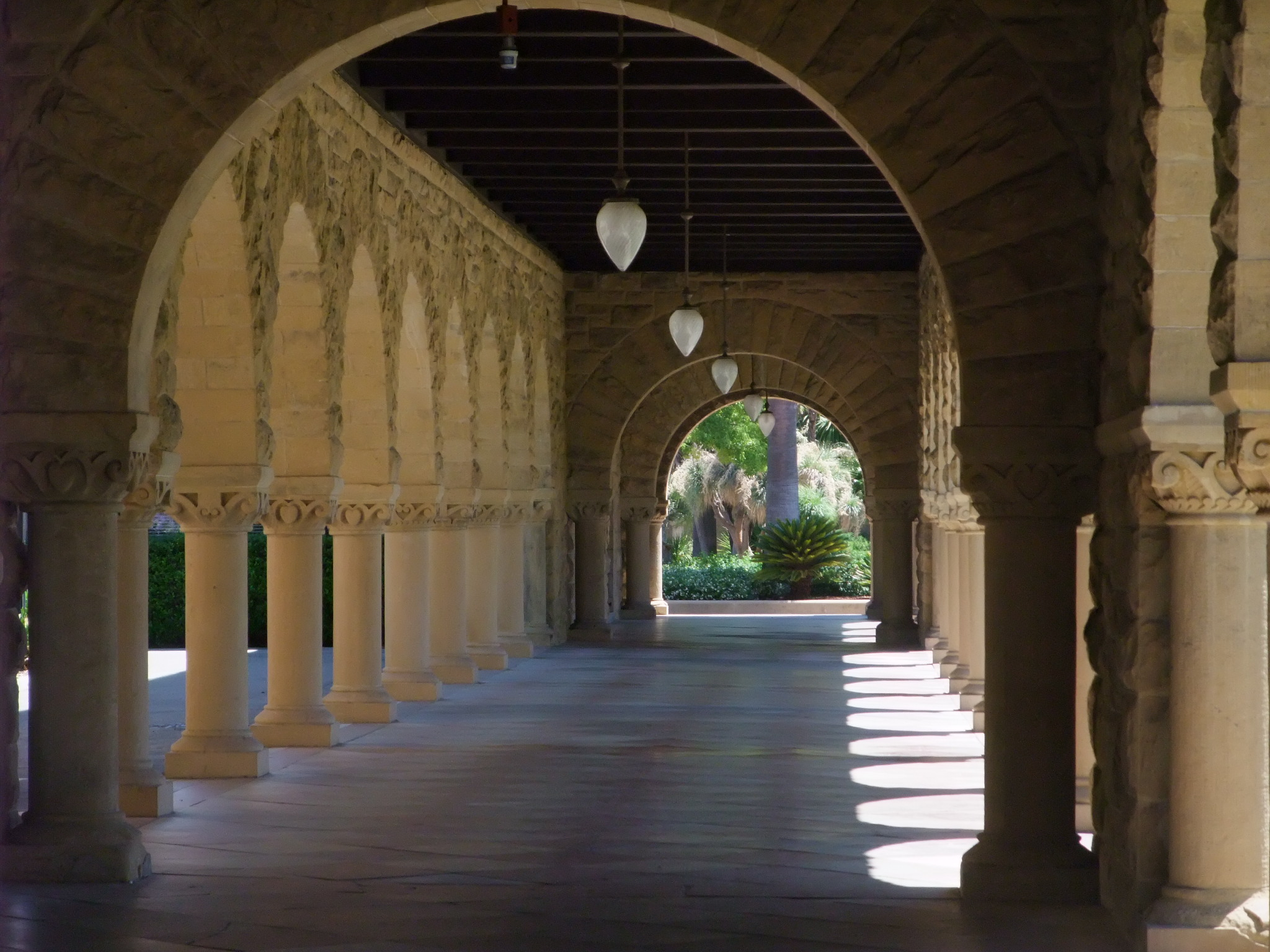 Stanford University